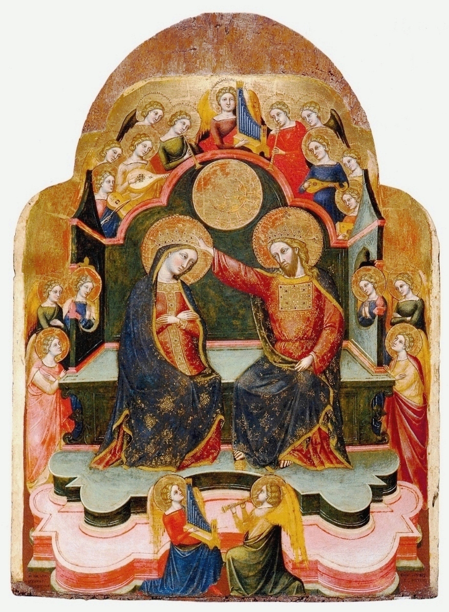 Stefano Veneziano. Coronation of the Virgin. 1381. Galleria della Accademia, Venice.